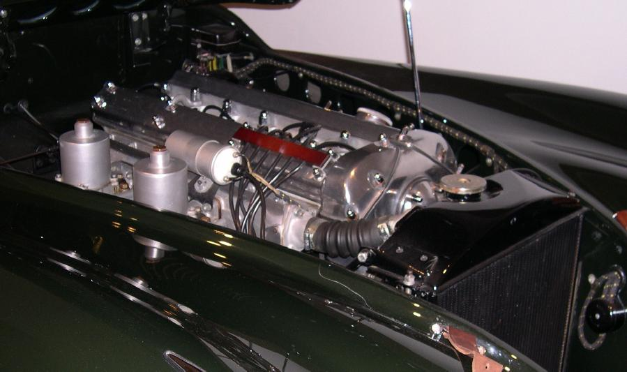 1950 Jaguar XK120 early XK6 engine From the Ralph Lauren collection on display at the Boston Museum of Fine Arts. Photo taken in 2005. Source: Photo by User:Sfoskett